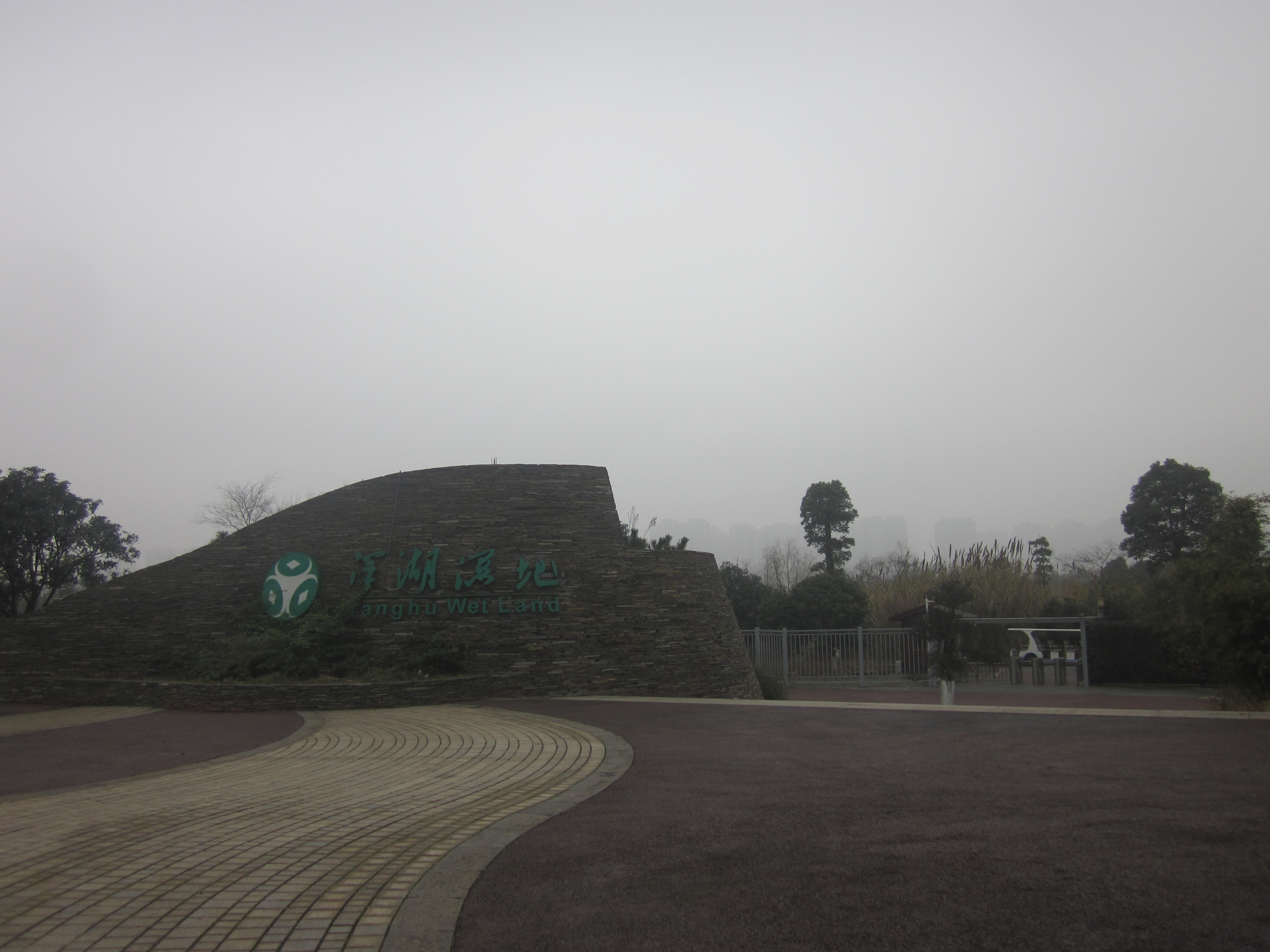 Export of Yanghu Wetland Park.